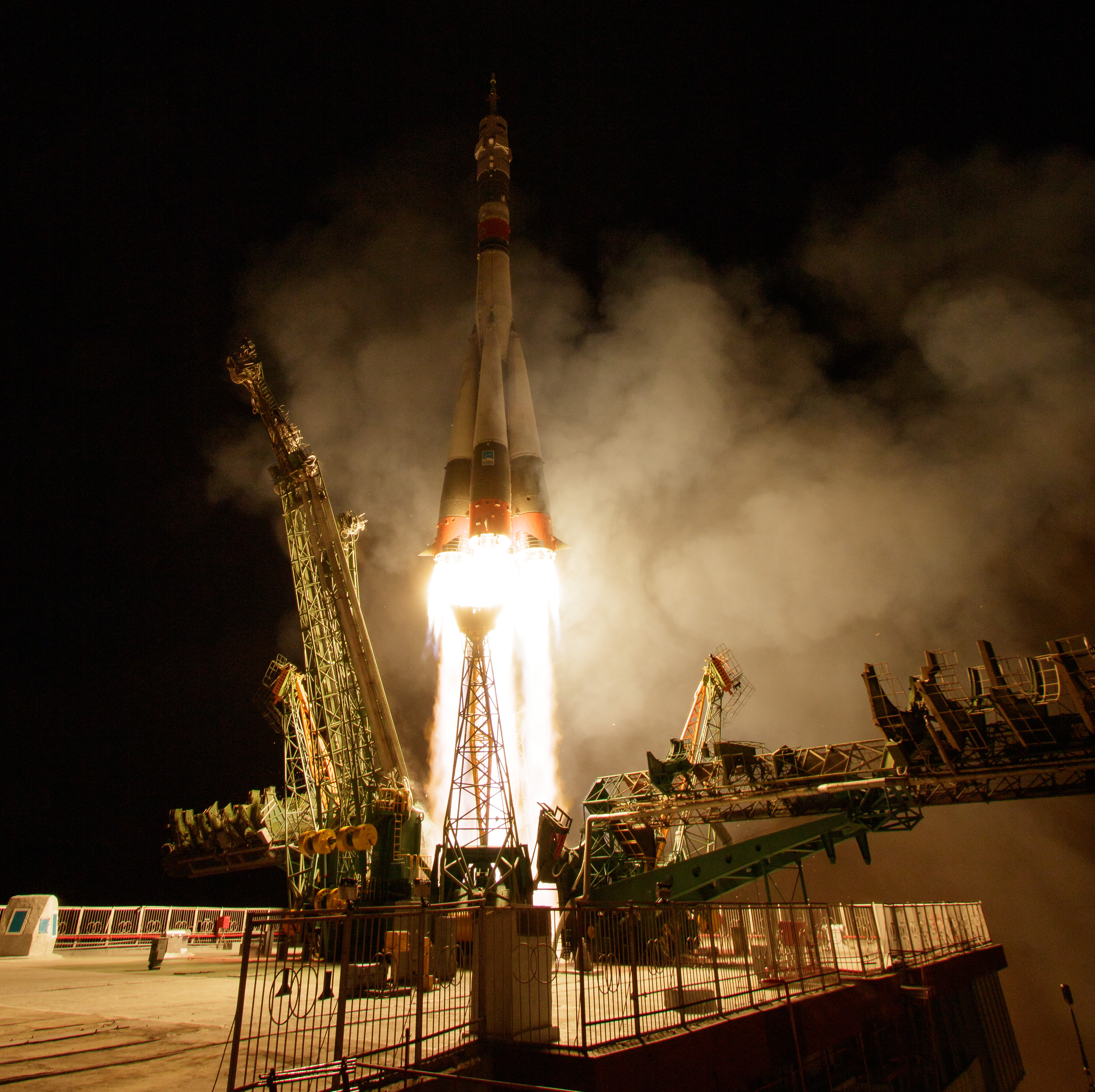 The Soyuz MS-15 spacecraft is launched with Expedition 61 crewmembers Jessica Meir of NASA and Oleg Skripochka of Roscosmos, and spaceflight participant Hazzaa Ali Almansoori of the United Arab Emirates, Wednesday, Sept. 25, 2019 from the Baikonur Cosmodrome in Kazakhstan.